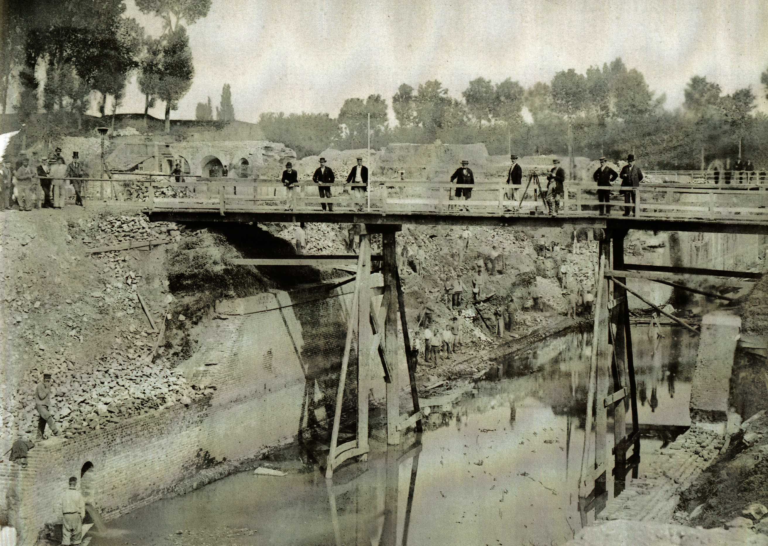 Maastricht, the Netherlands. View of Zuid-Willemsvaart and the northern section of the fortifications of Maastricht shortly before most of it was demolished. Detail of a photograph by Theodor Weijnen from 1875.